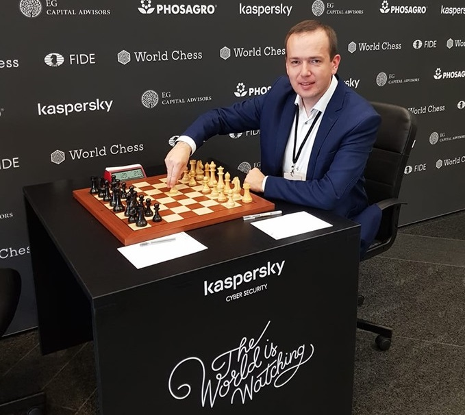 Arturs Neiksans during the FIDE Grand Prix Riga stage